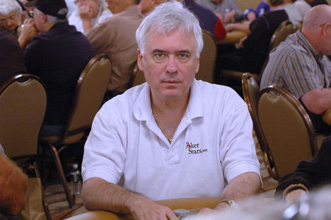 Tom McEvoy in 2006 World Series of Poker - Rio Las Vegas.